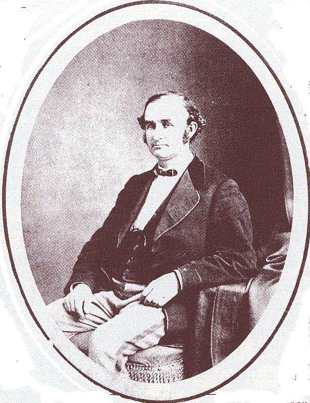 Photograph of Peter Herdic (1824-1888)